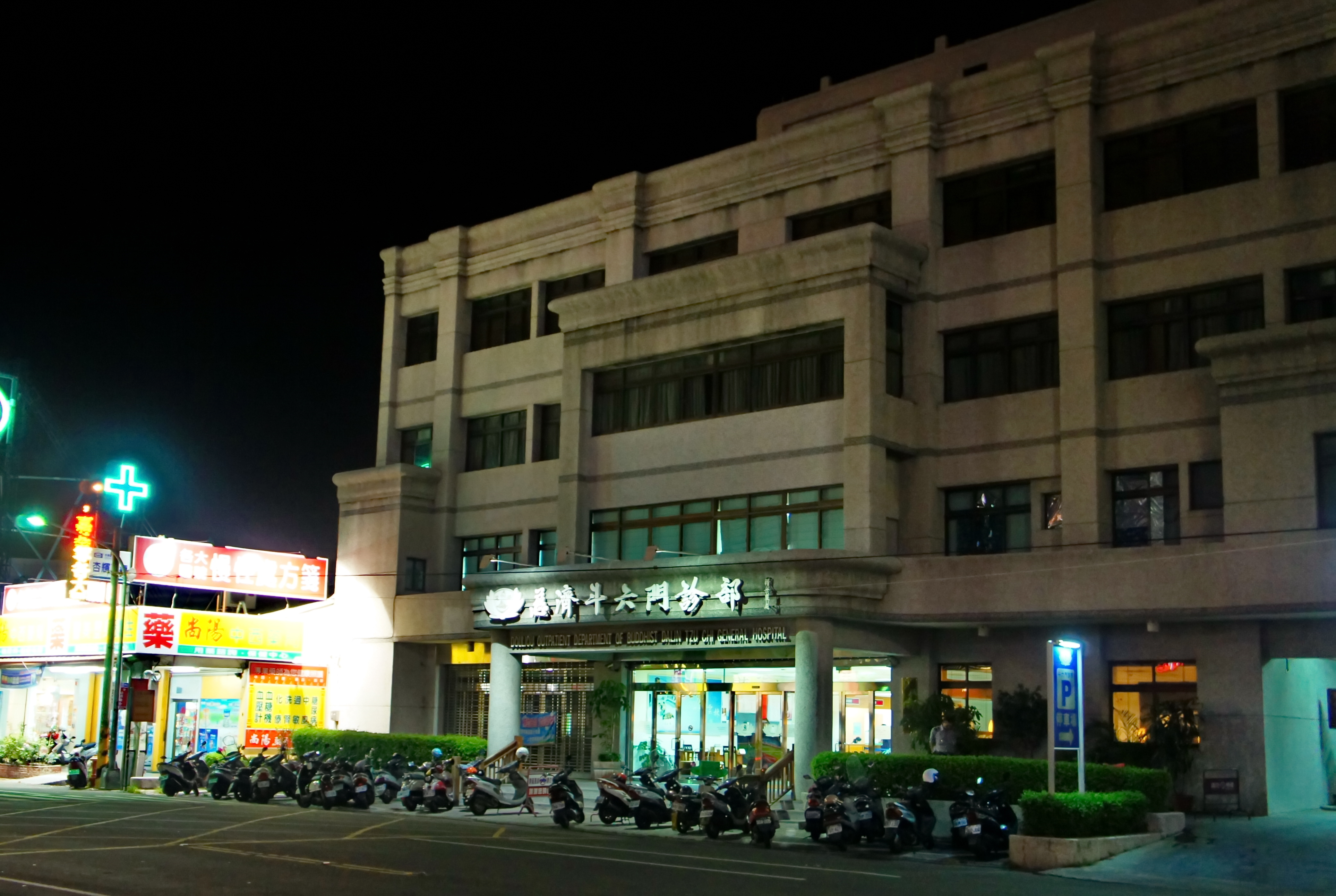 Buddhist Douliou Tzu Chi Outpatient Department, Douliou, Yunlin, Taiwan.